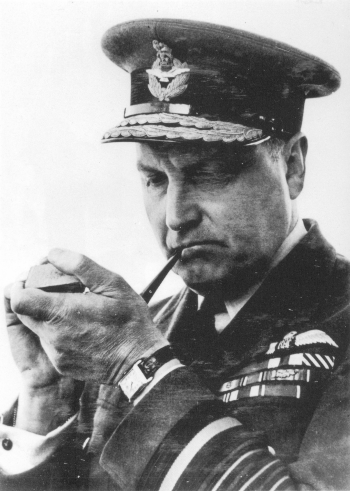 Photograph of Air Chief Marshal Sir Sholto Douglas. This photograph was taken whilst Dougals was AOCinC Middle East, which dates it to the period en:11 January en:1943 to en:20 January en:1944. The photograph was scanned from Probert, H. (1991). High Commanders of the Royal Air Force. HMSO. ISBN 0-11-772635-4. The entire book, including its photographs, was issued under Crown Copyright. Although copyright for the book is dated at 1991, the Crown Copyright on the photographs starts from the date when they were taken. As this photograph is more than 50 years old it is now in the public domain.